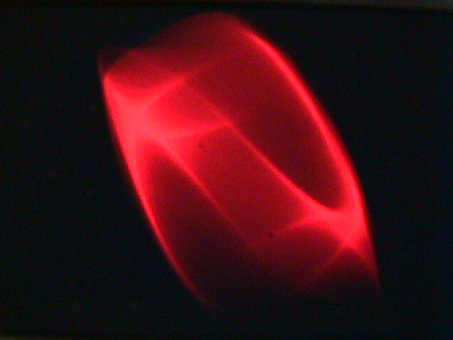 HeNe laser modulation from a vibrating mercury mirror. Developed by Ron Rocco produced in collaboration with David Hykes